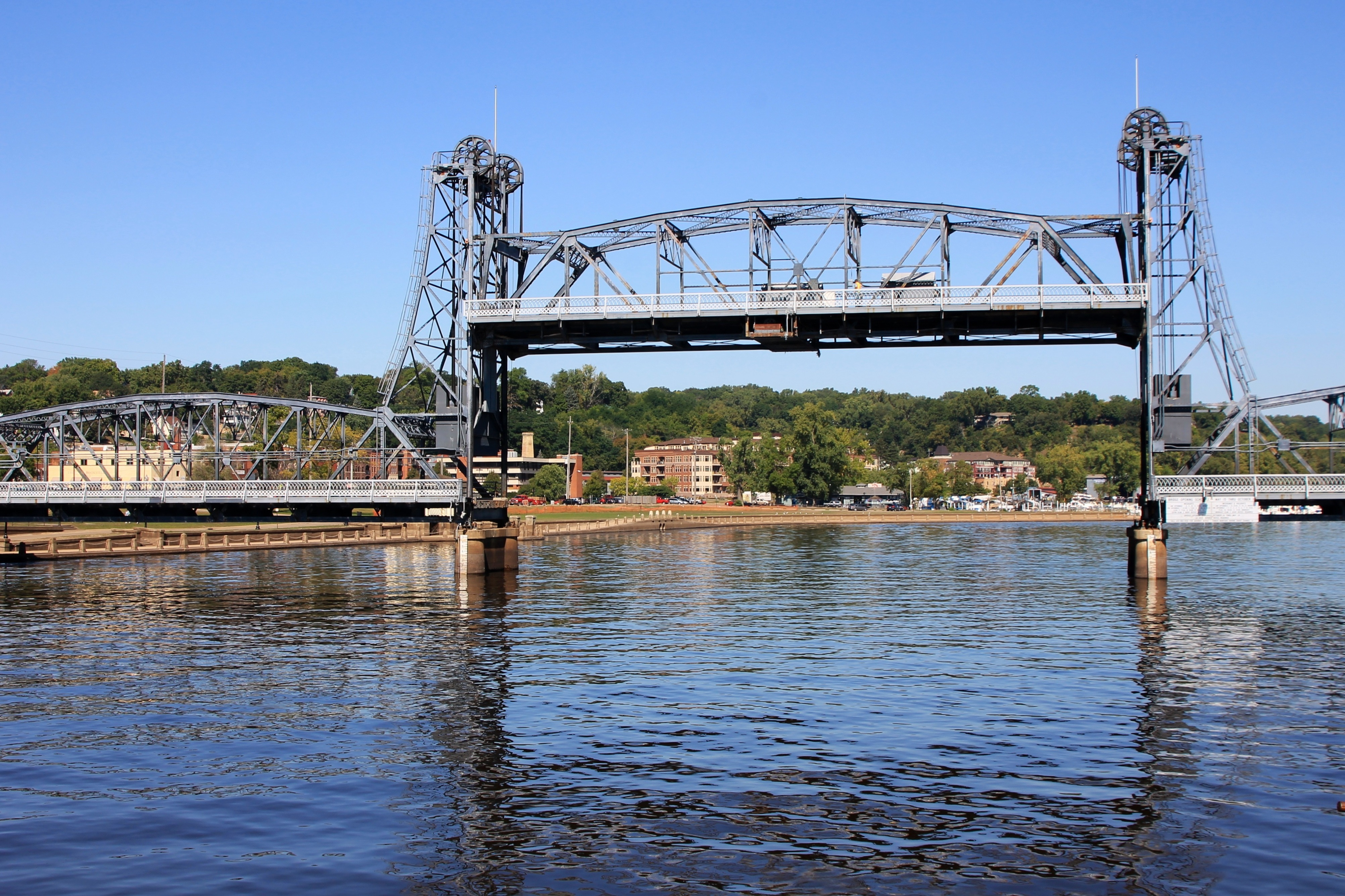 The Stillwater Bridge, over the St. Croix River in Stillwater, Minnesota, with its lift span raised. The 1931 bridge is listed on the U.S. National Register of Historic Places.